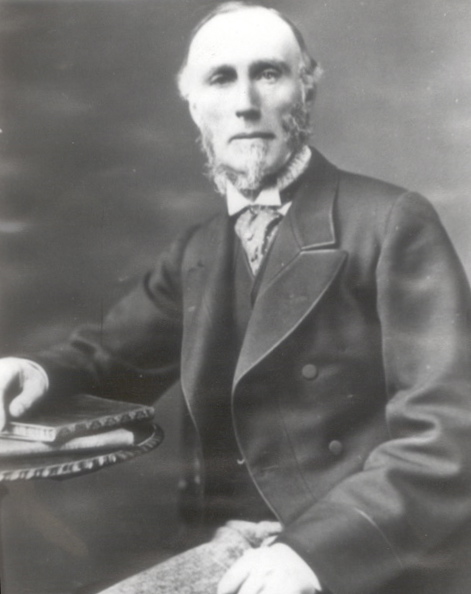 Thomas Baring, 1st Earl of Northbrook (1826-1904)